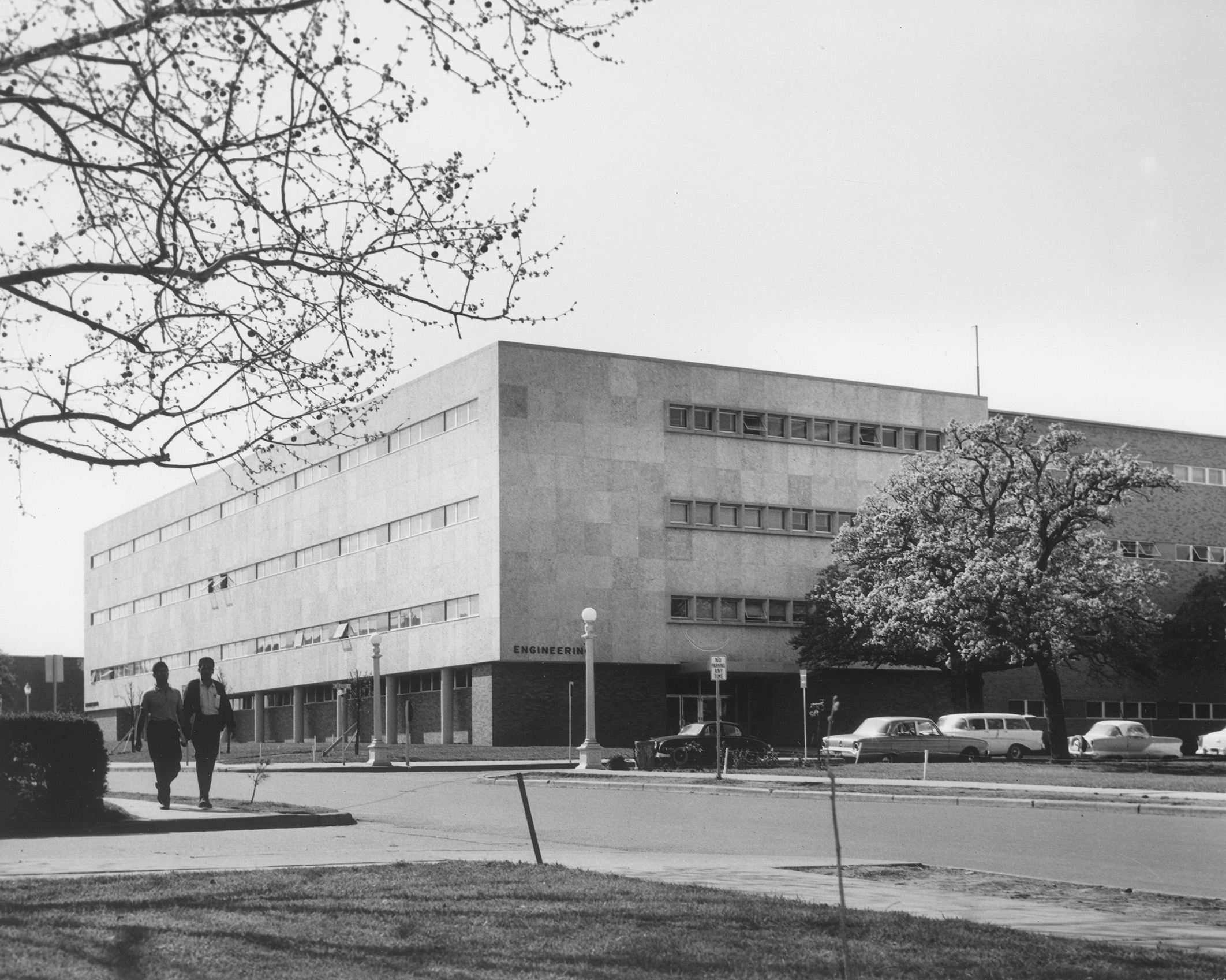 Arlington State College Engineering building [built 1960].